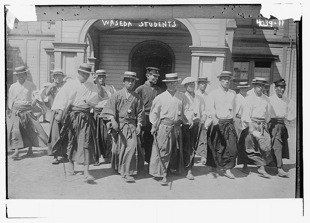 Waseda University students in 1916